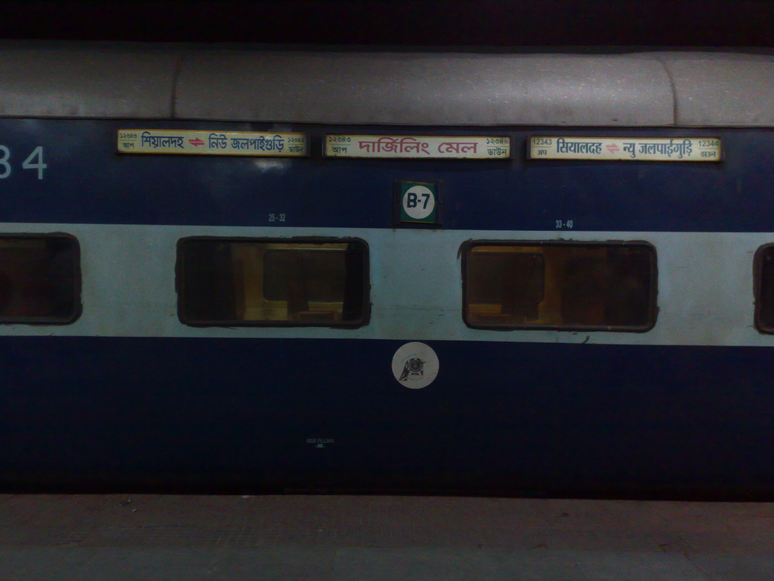 Darjeeling Mail - AC 3 tier